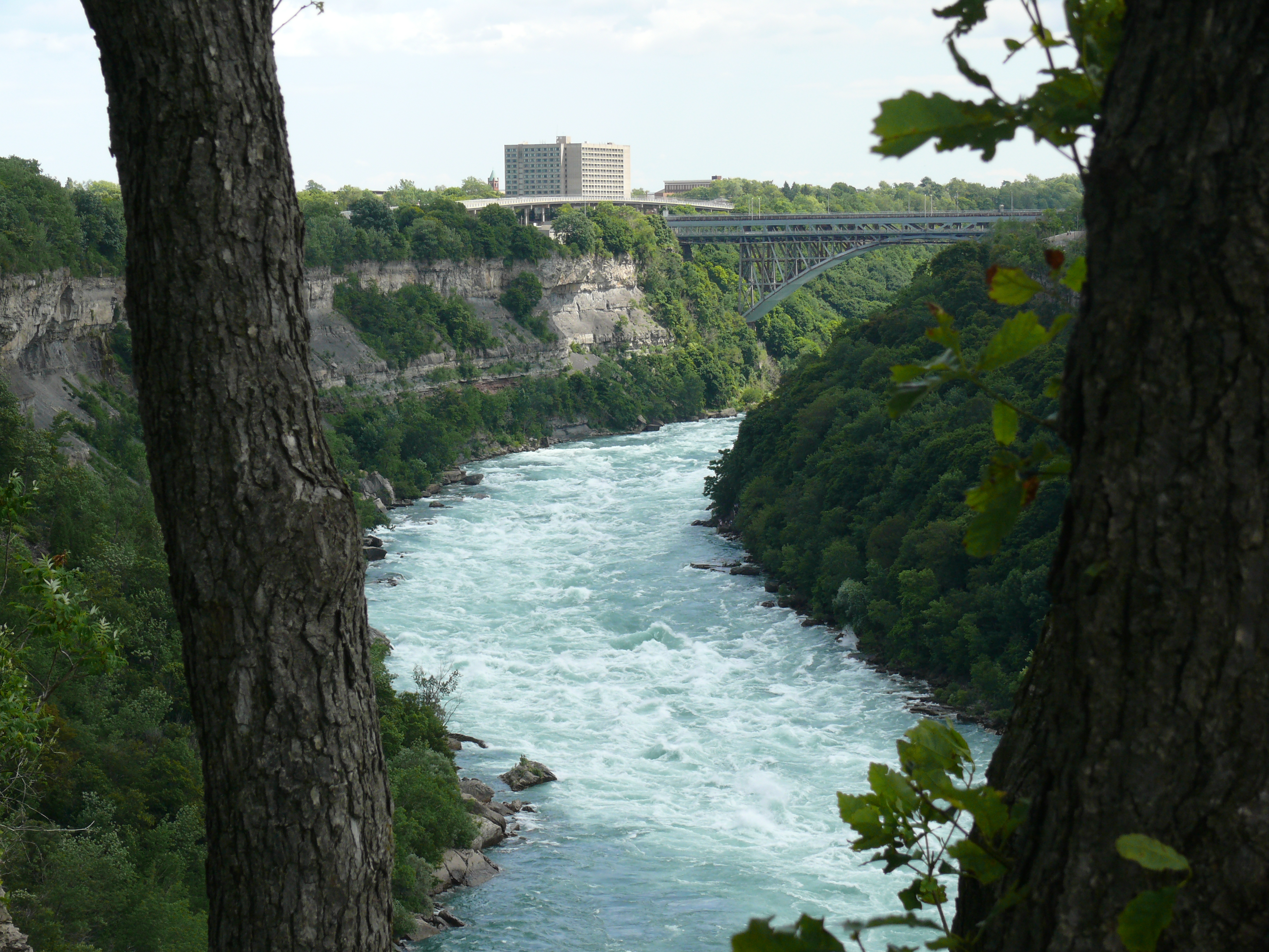 Whirlpool on the Niagara River, just past Niagara Falls. Taken looking south toward the Whirlpool Rapids Bridge that links the USA (on left) to Canada.